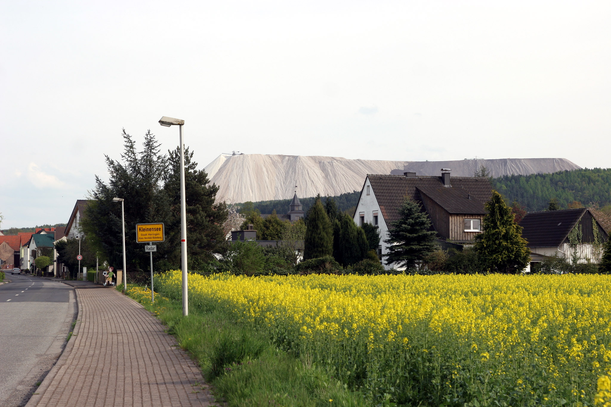 Kleinensee, part of the city of Heringen (Werra) (Germany). The so called Monte Kali in the background.